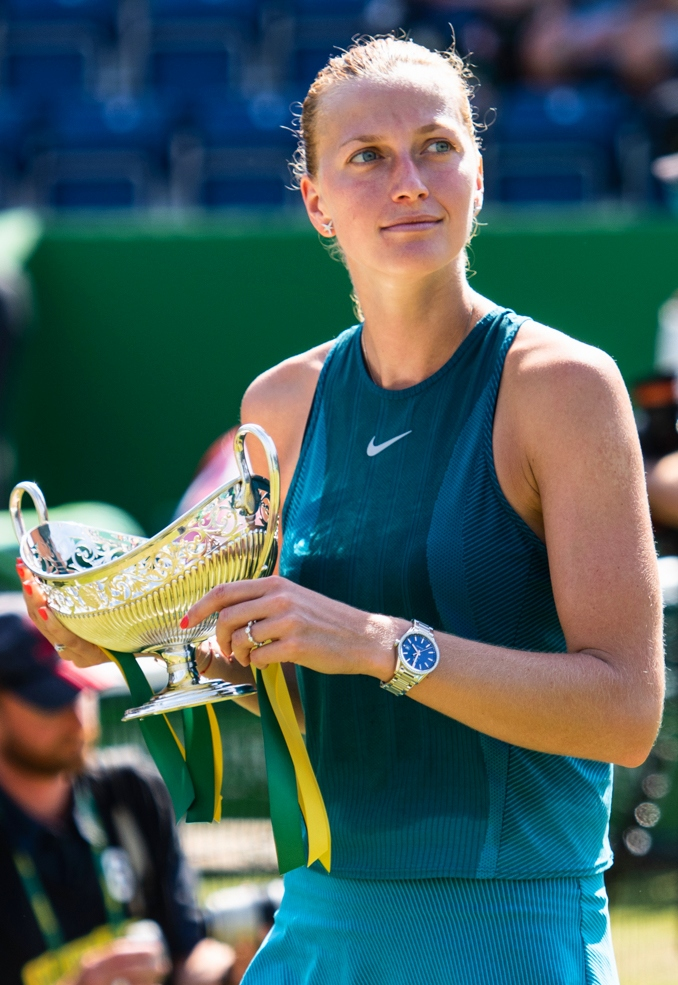 Petra Kvitova holds Maud Watson trophy for champions at Birmingham Classic